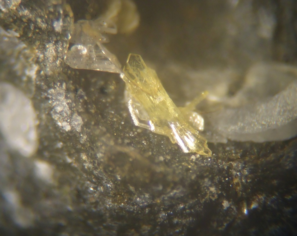 Nealite Locality: Thorikos Bay slag locality, Thorikos area, Lavrion District slag localities, Lavrion District (Laurion; Laurium), Attikí Prefecture (Attica; Attika), Greece Original description: Great sun yellow crystals of Nealite up to 2,4 mm of extension.